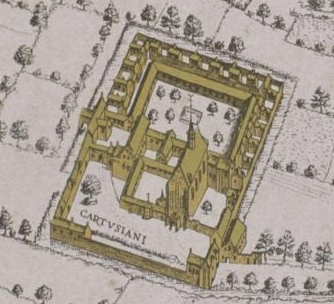 Detail of Marcus Gerards's map of sixteenth-century Bruges, zoomed in on the Carthusian cloister the Genadedal (Val-de-Grâce) outside the city walls.